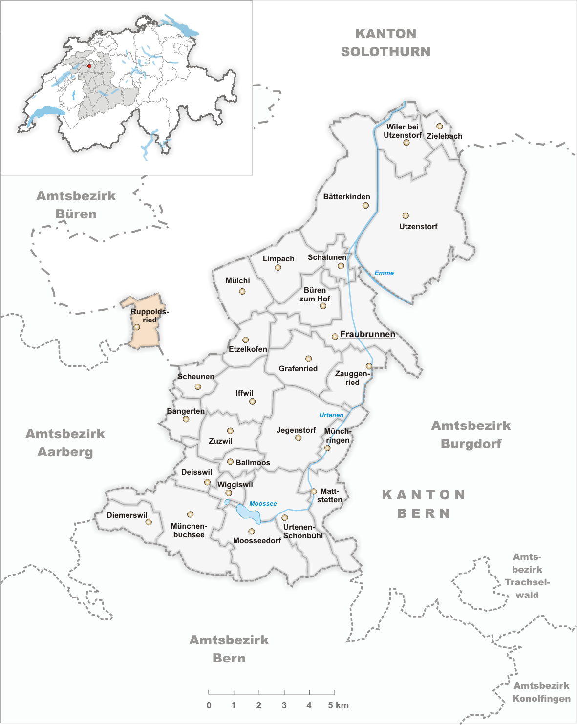 Municipality Ruppoldsried